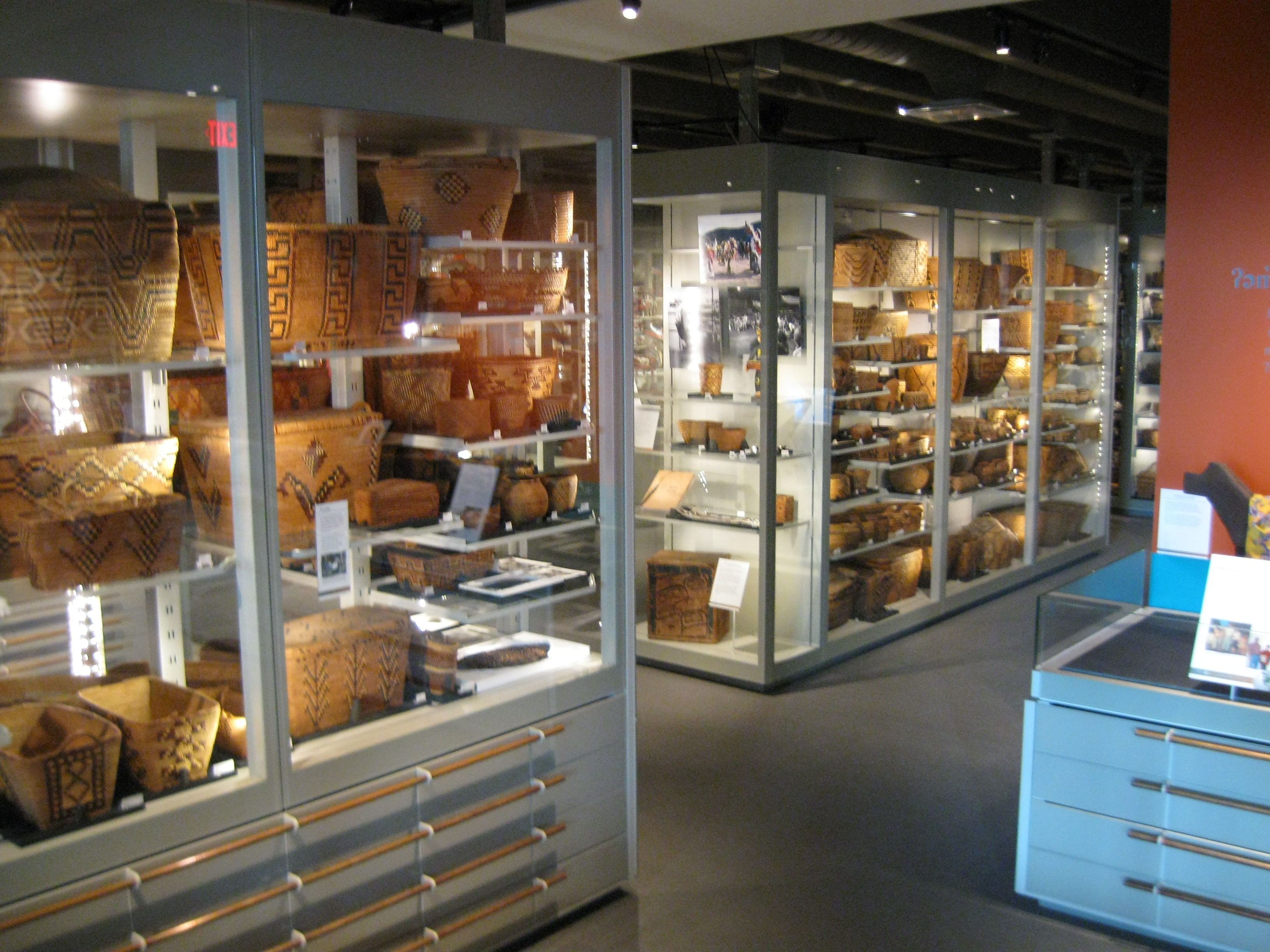 This is a picture of the new modern native art gallery and glass cases in UBC's Museum of Anthropology at Vancouver, Canada in February 2010.